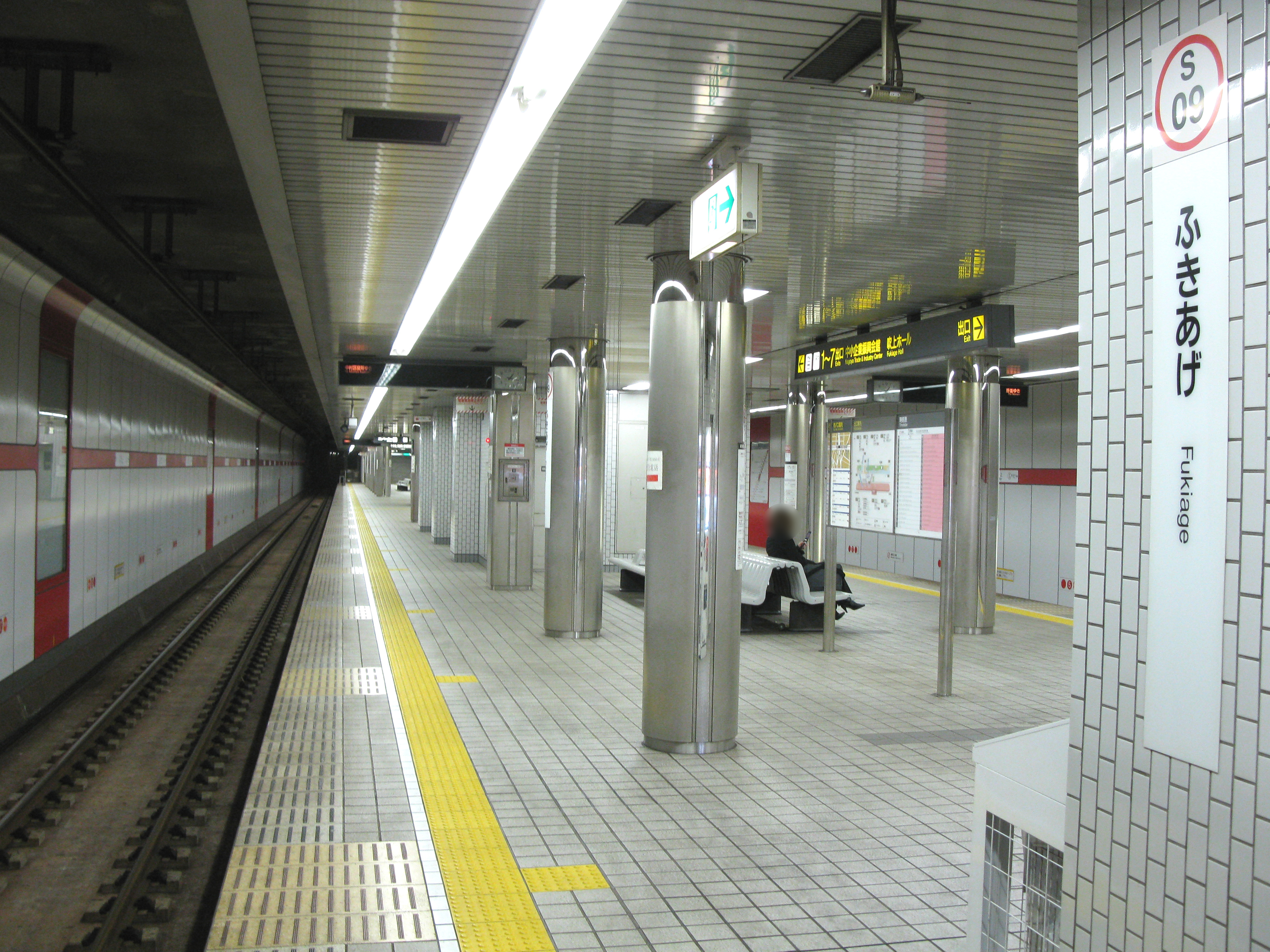 Fukiage Station platform (Nagoya Municipal Subway Sakura-dōri Line)